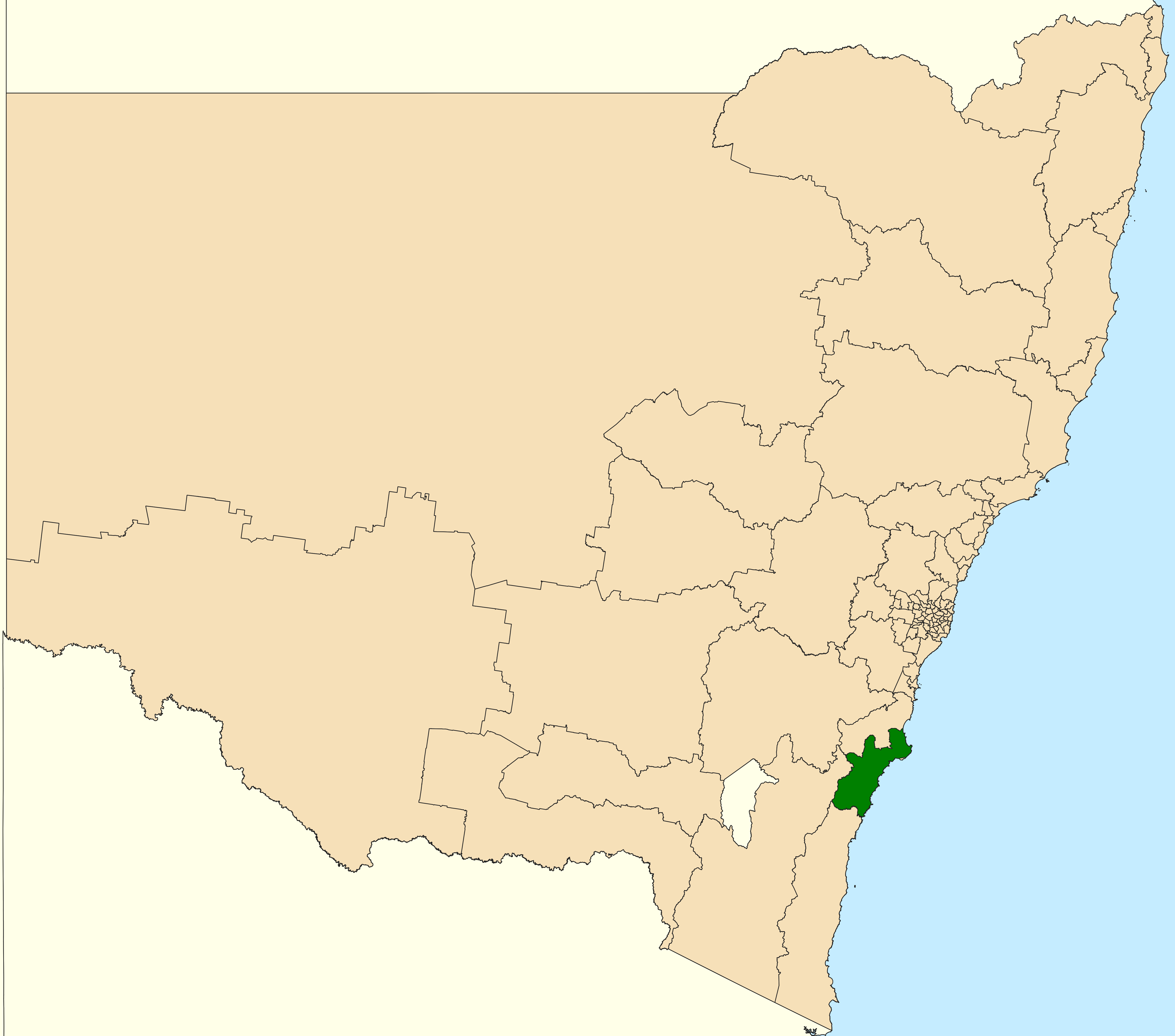 Location of the state electoral district of South Coast (dark green) in New South Wales as of the 2019 New South Wales state election. Incorporates or developed using Administrative Boundaries ©PSMA Australia Limited licensed by the Commonwealth of Australia under Creative Commons Attribution 4.0 International licence (CC BY 4.0).